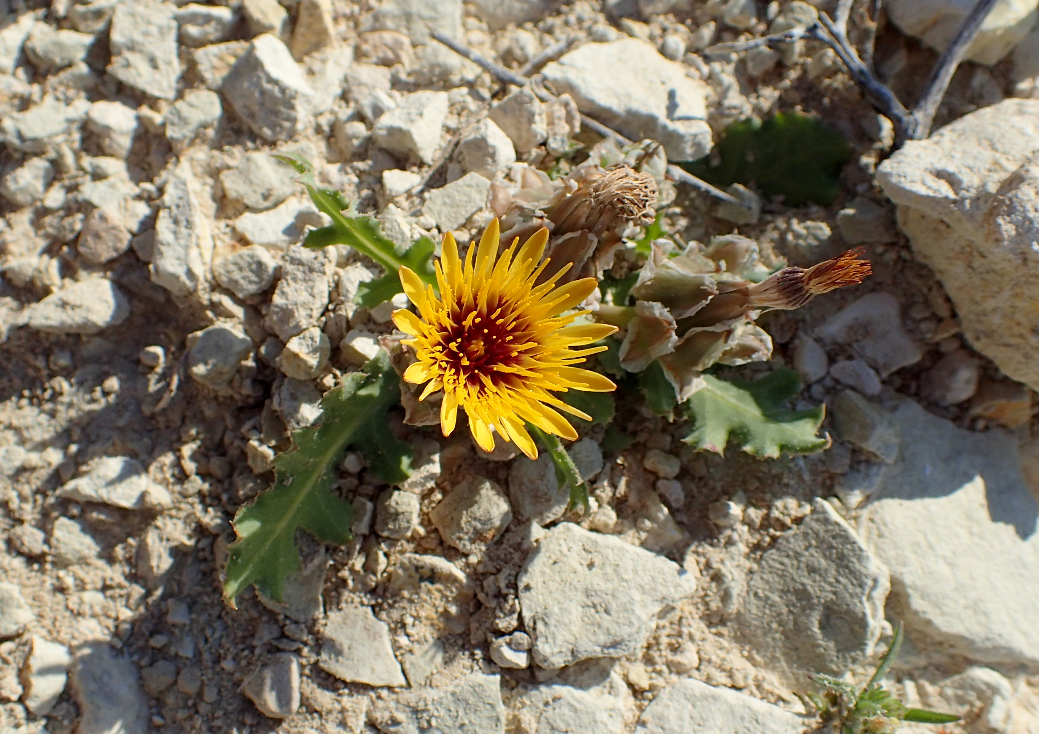 Reichardia tingitana in Petra tou Ramiou, Cyprus